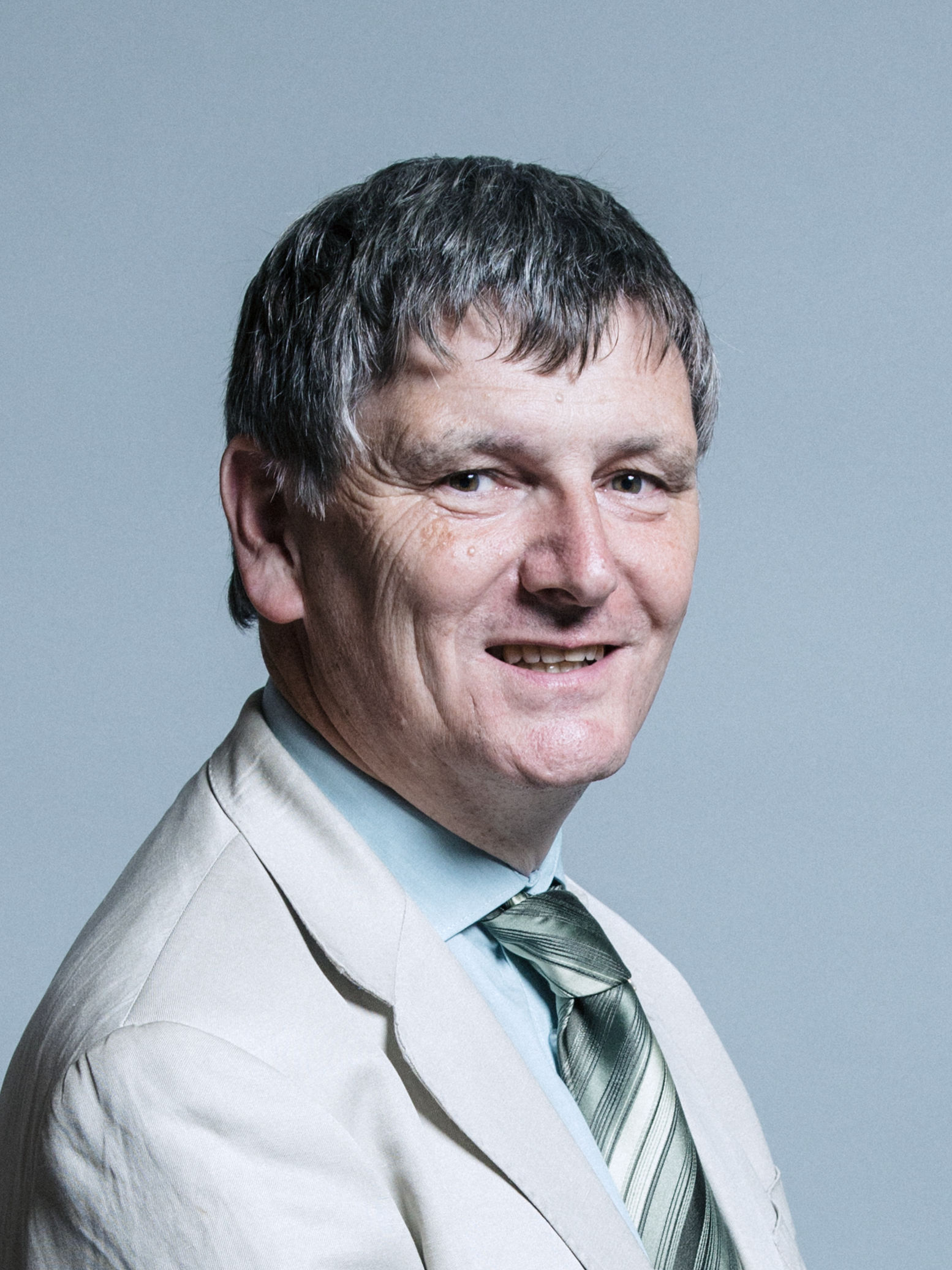 Official portrait of Peter Grant